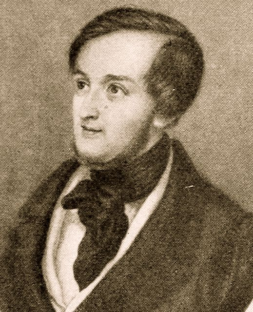 Portrait of a Youthful Richard Wagner (1813-83)